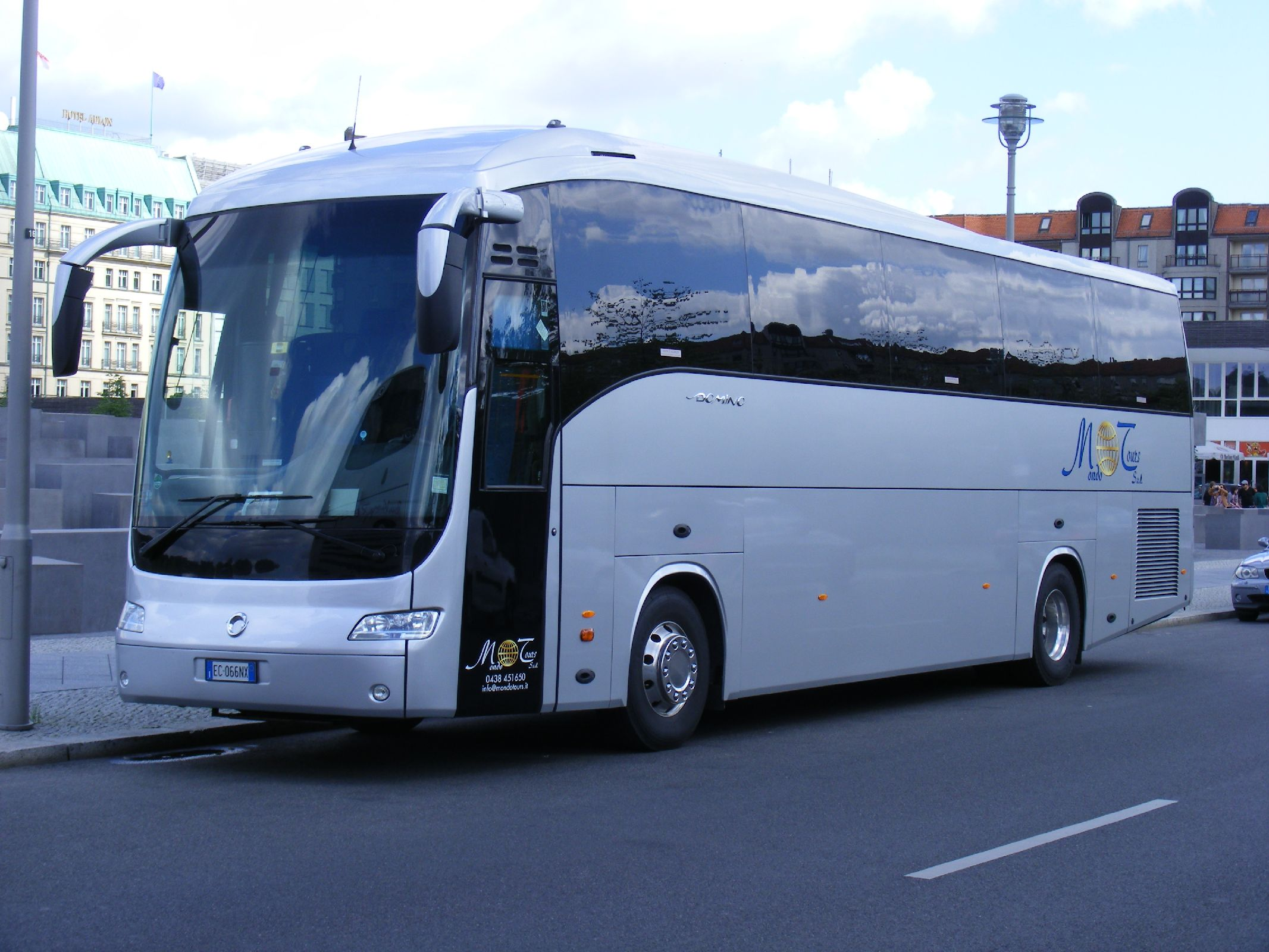 EC 066NX, Irisbus Domino, Mondo Tours Srl, Italy. Berlin Aug 2010